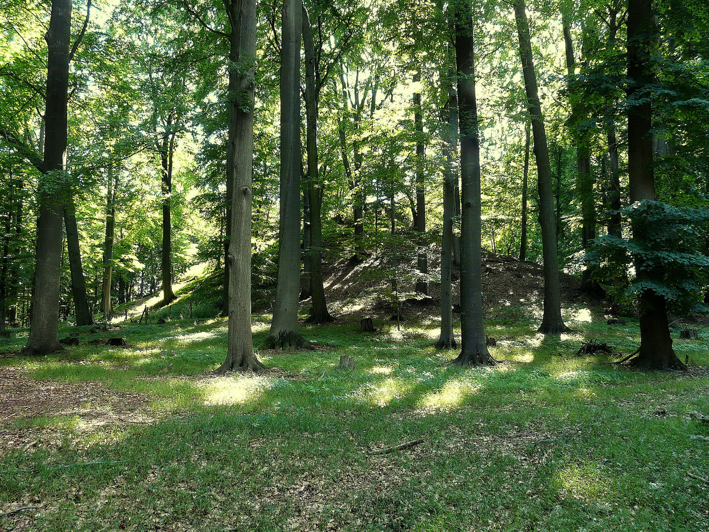 Southern peak of Radechov